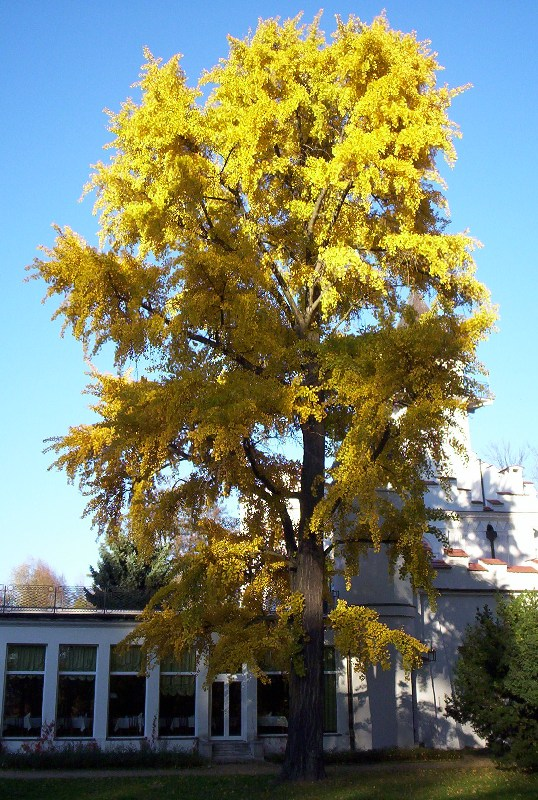 Gingko bilboa in palace garden in Radziejowice, Poland.